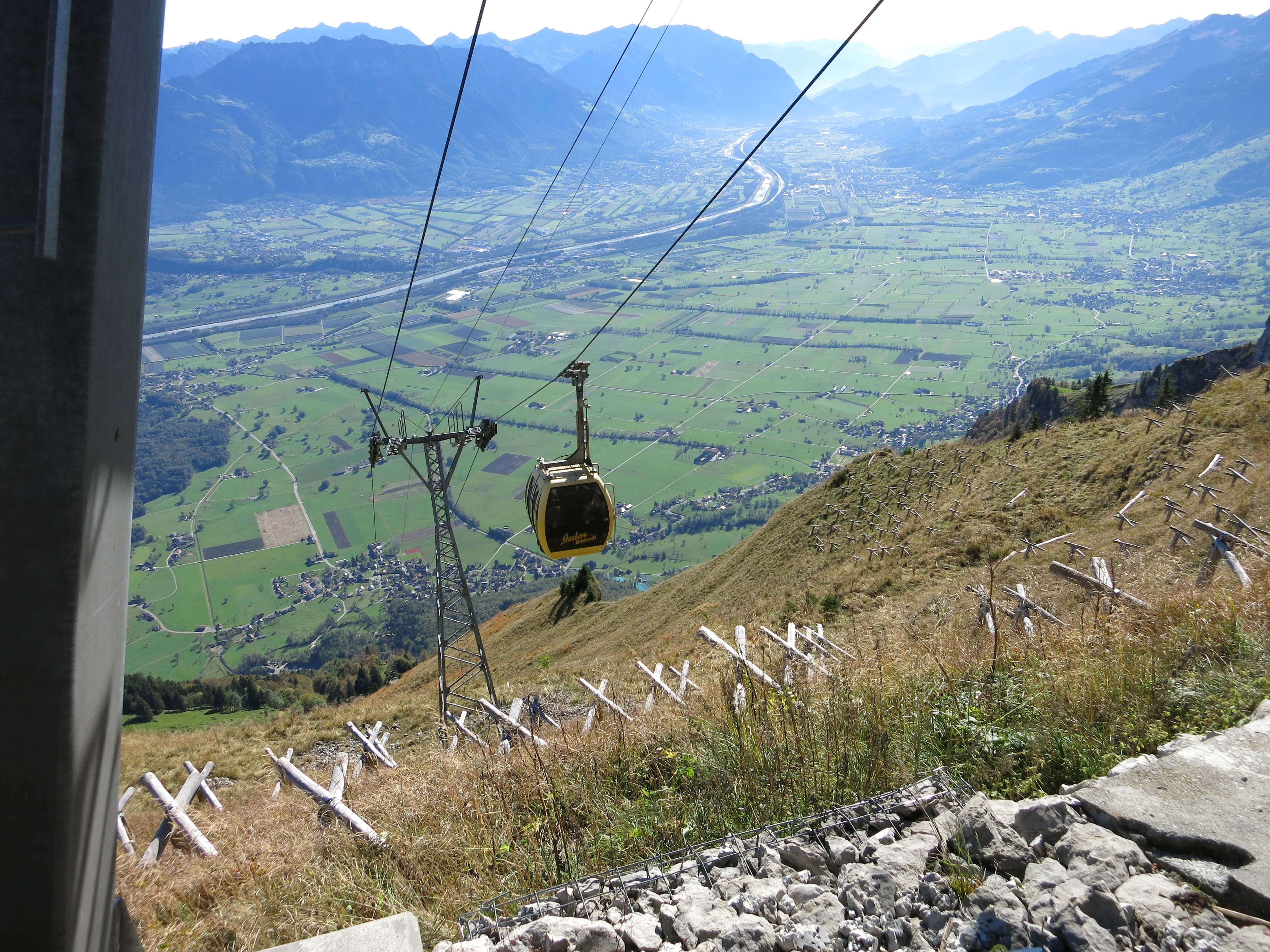 Stauberenbähnli, cable car in Switzerland